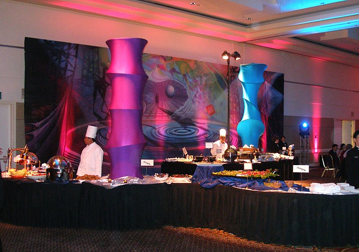 An example of event catering, at a party held by a major corporation at the Hyatt Regency in Burlingame. Notice the presence of uniformed catering staff, as well as the artistic arrangement of the lighting, tables, and various decorative elements.